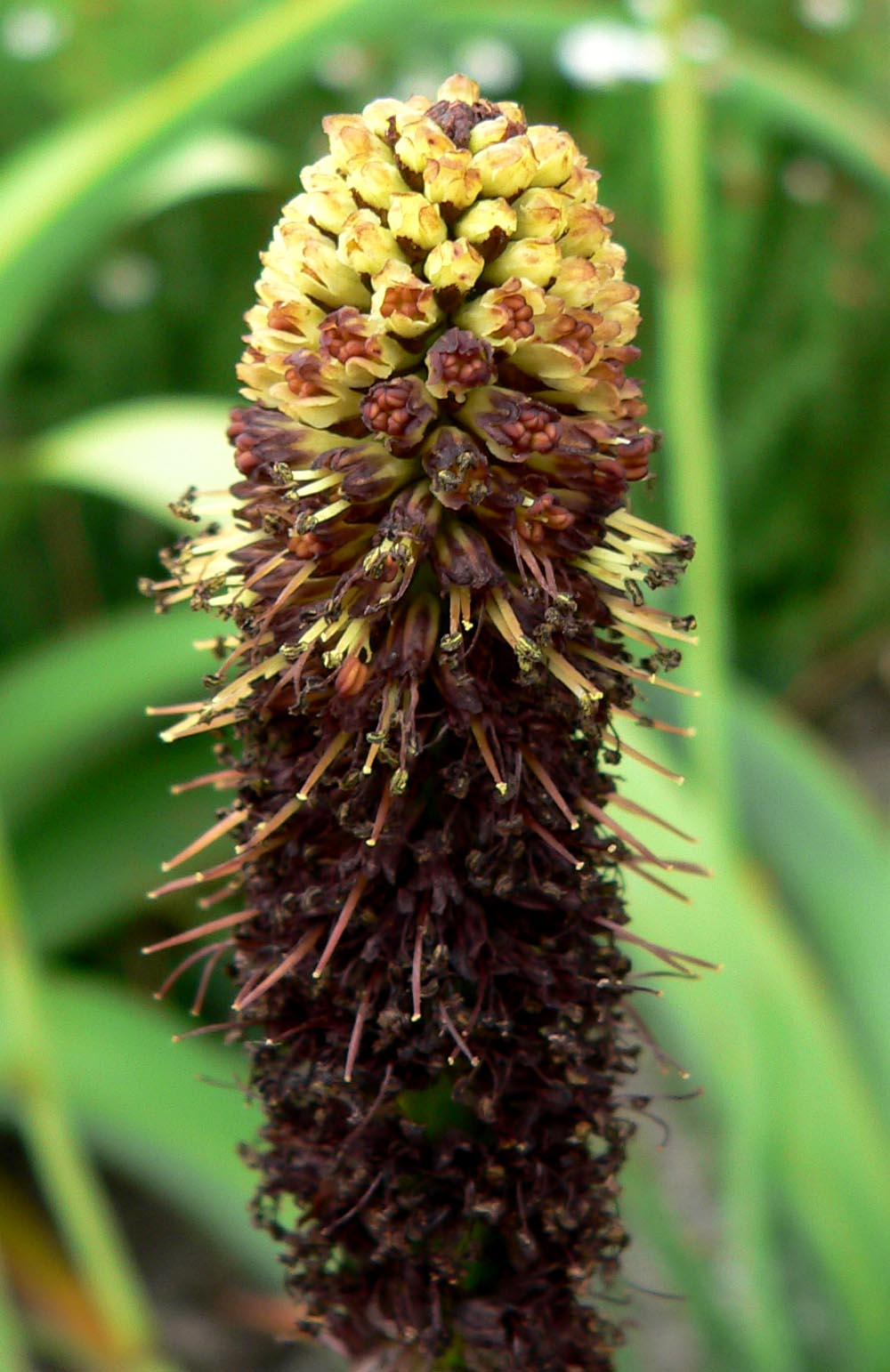 Photo of Kniphofia brachystachya at the UBC Botanical Garden